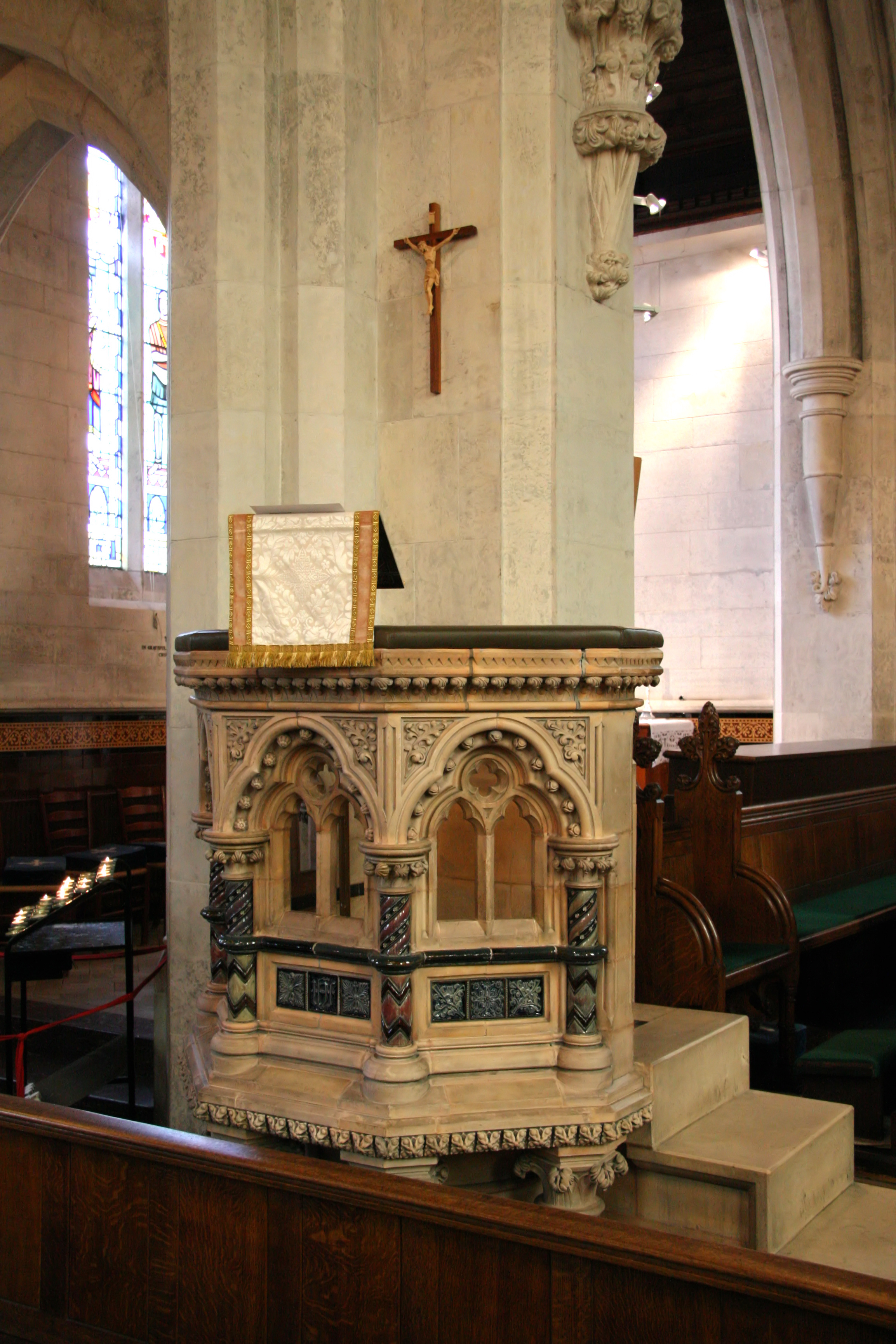 St. Alban's English Church, Copenhagen, Denmark Pulpit